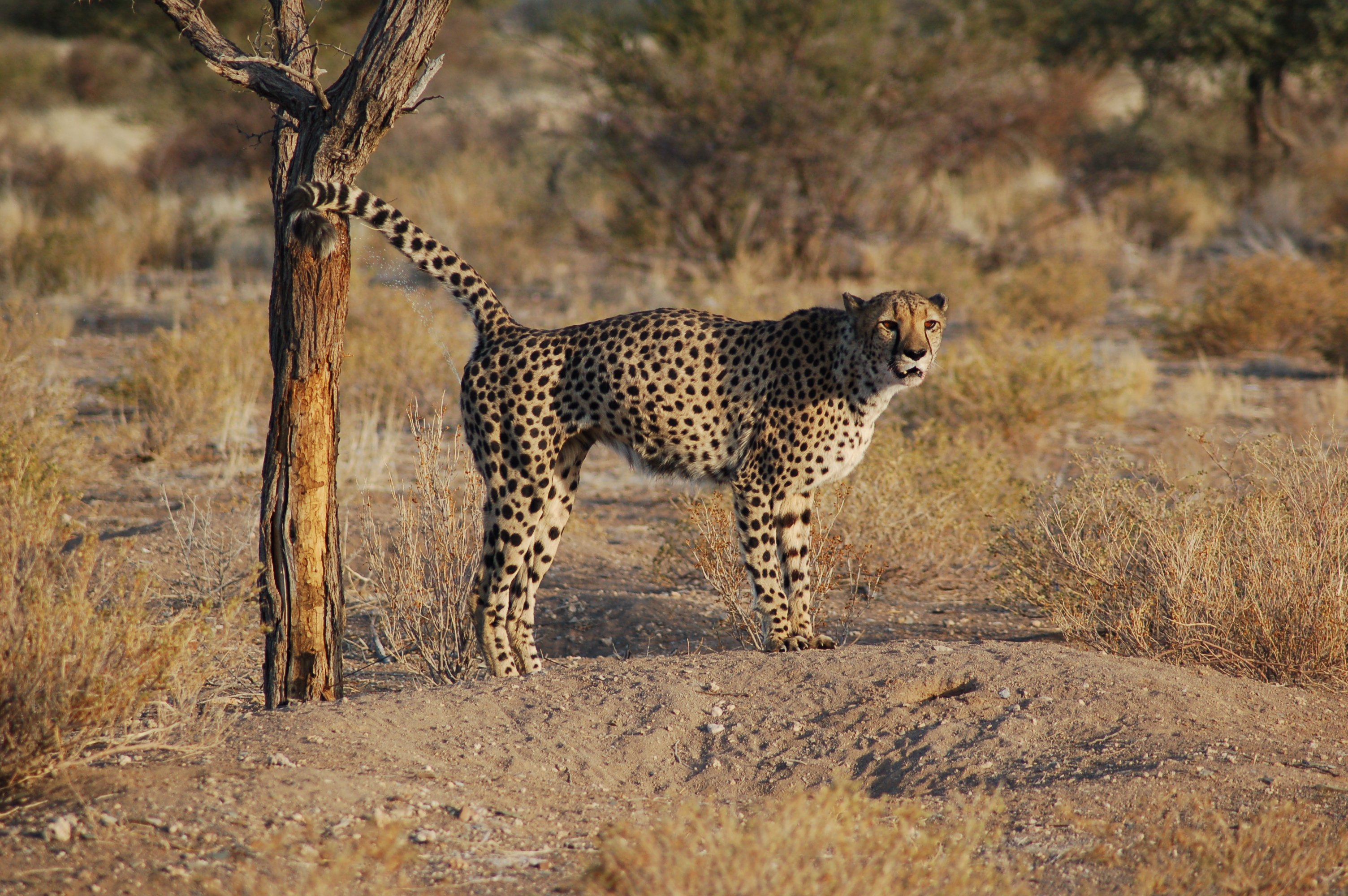 A South African cheetah in southern Namibia. He is urinating over a tree trunk.